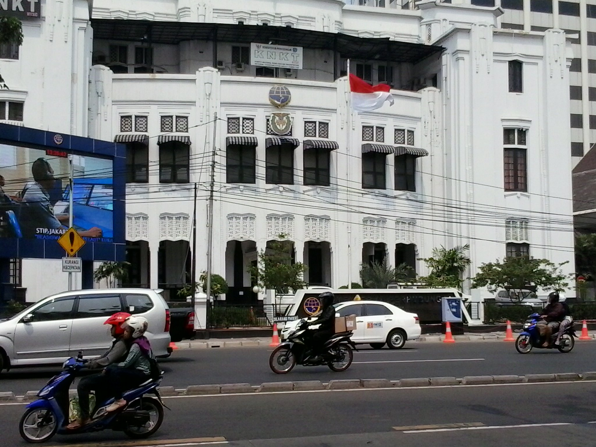 National Transportation Safety Committee (NTSC) head office at Transportation Building, Jakarta on the third floor.